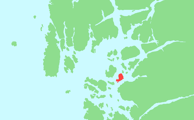 Locator map of Fogn, Rogaland, Norway